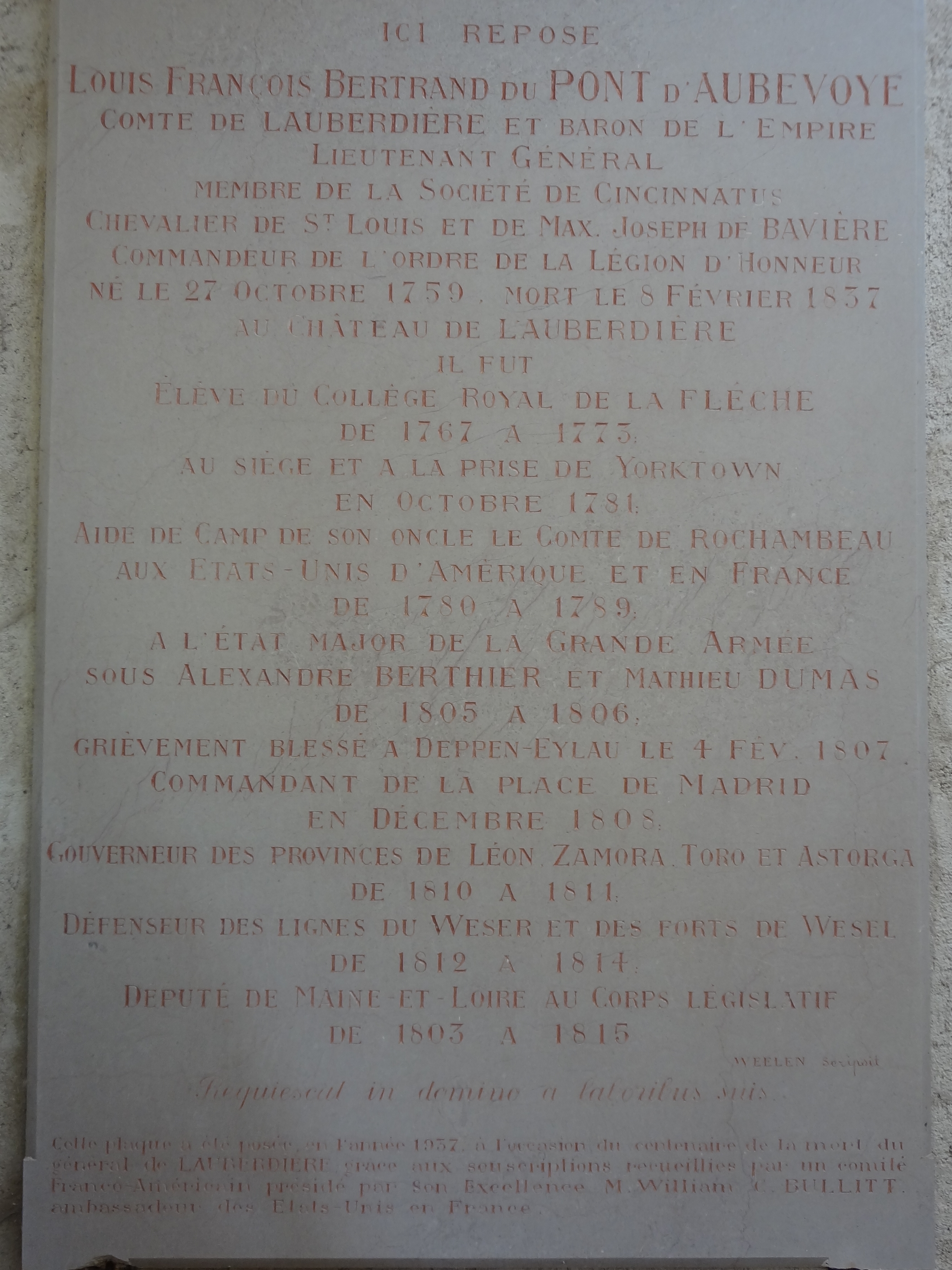 Plaque commémorative du Général Comte de Lauberdière